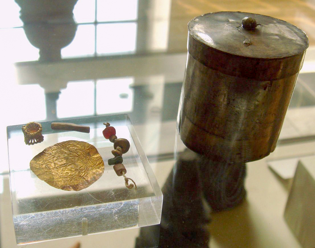 Jaulian Taxila Silver Reliquary And Content